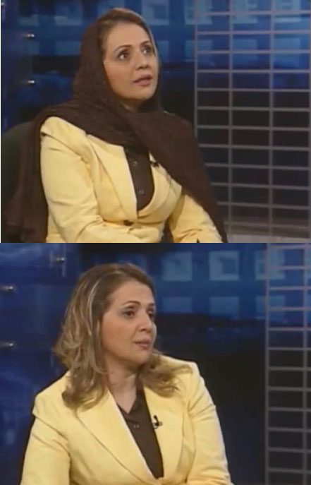 Fariba Davoodi Mohajer, takes off her hijab against TV camera.